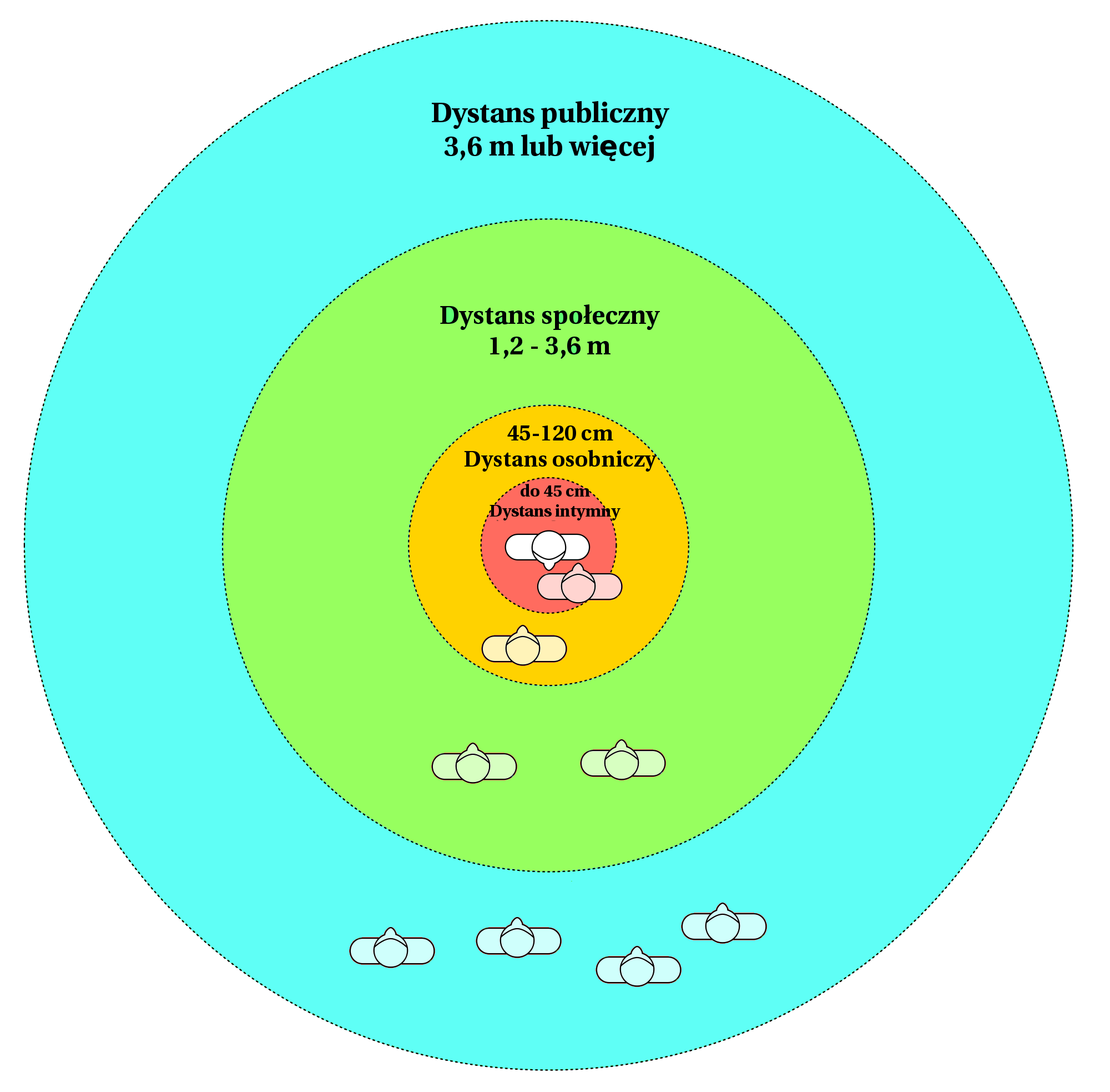 Diagram representation of personal space limits